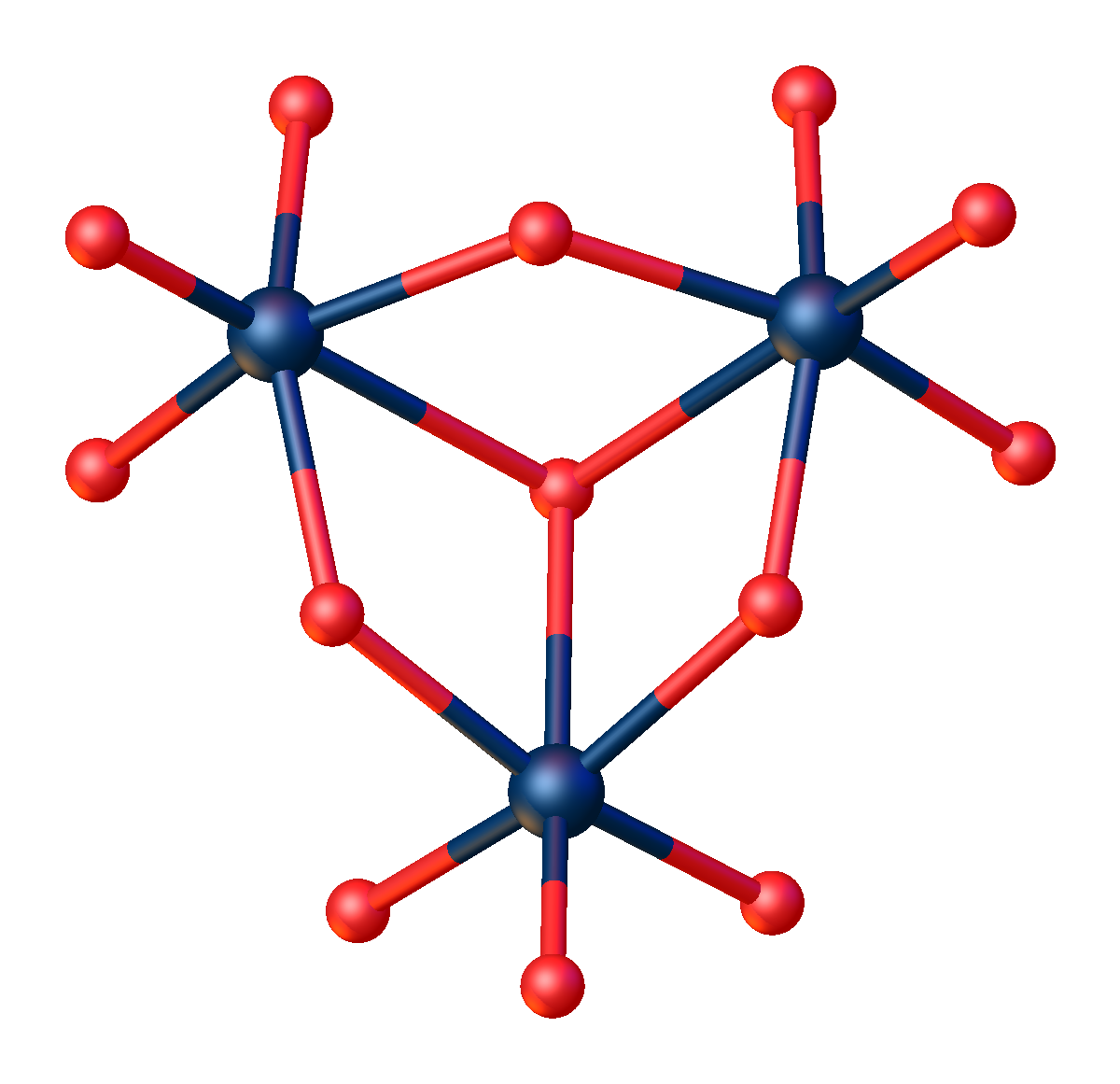 subunit of M12O40 cage in metatungstate